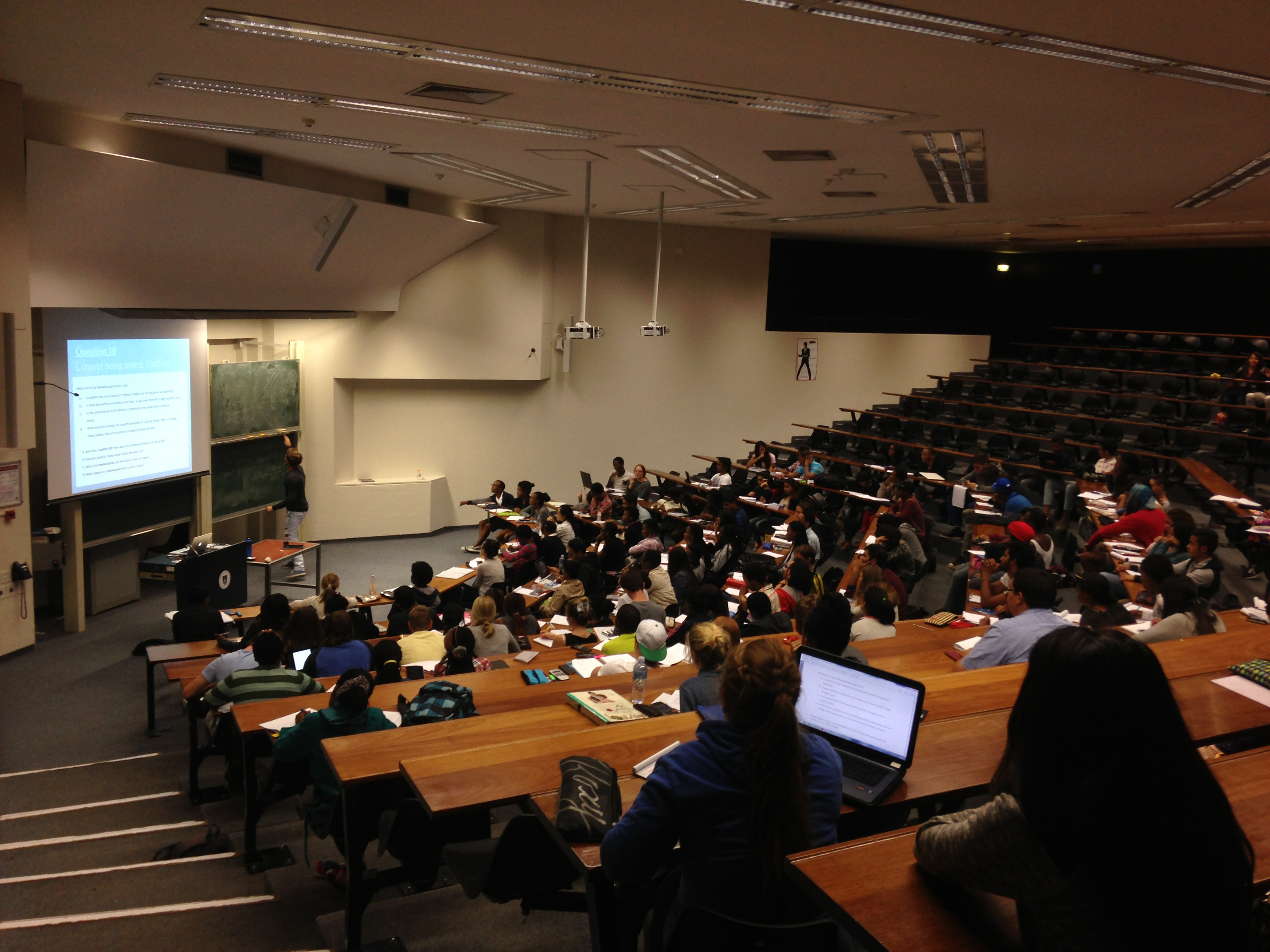 A lecture in progress in Leslie Soc-Sci building in theatre 2A.